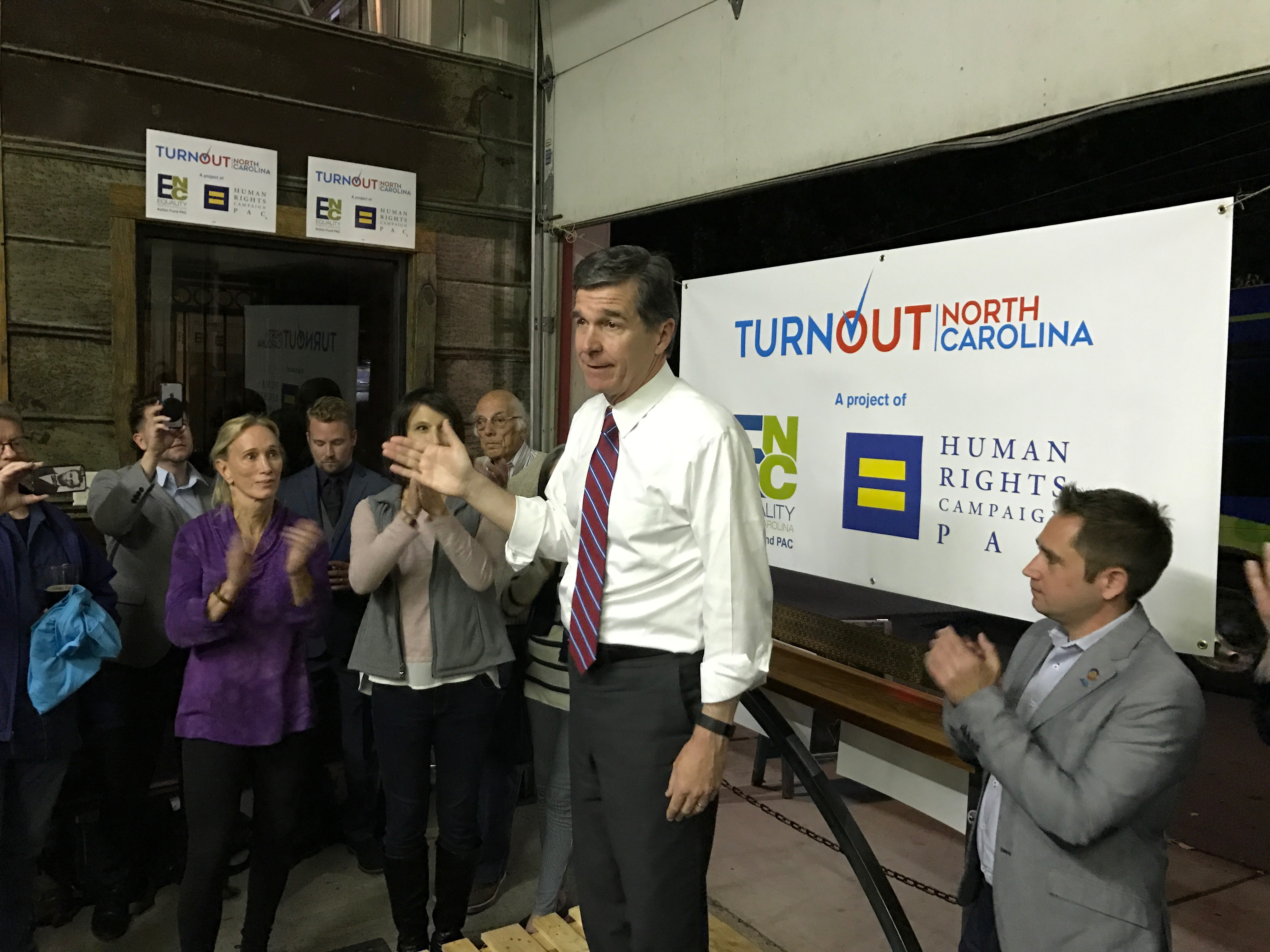 Attempting to stop Armageddon